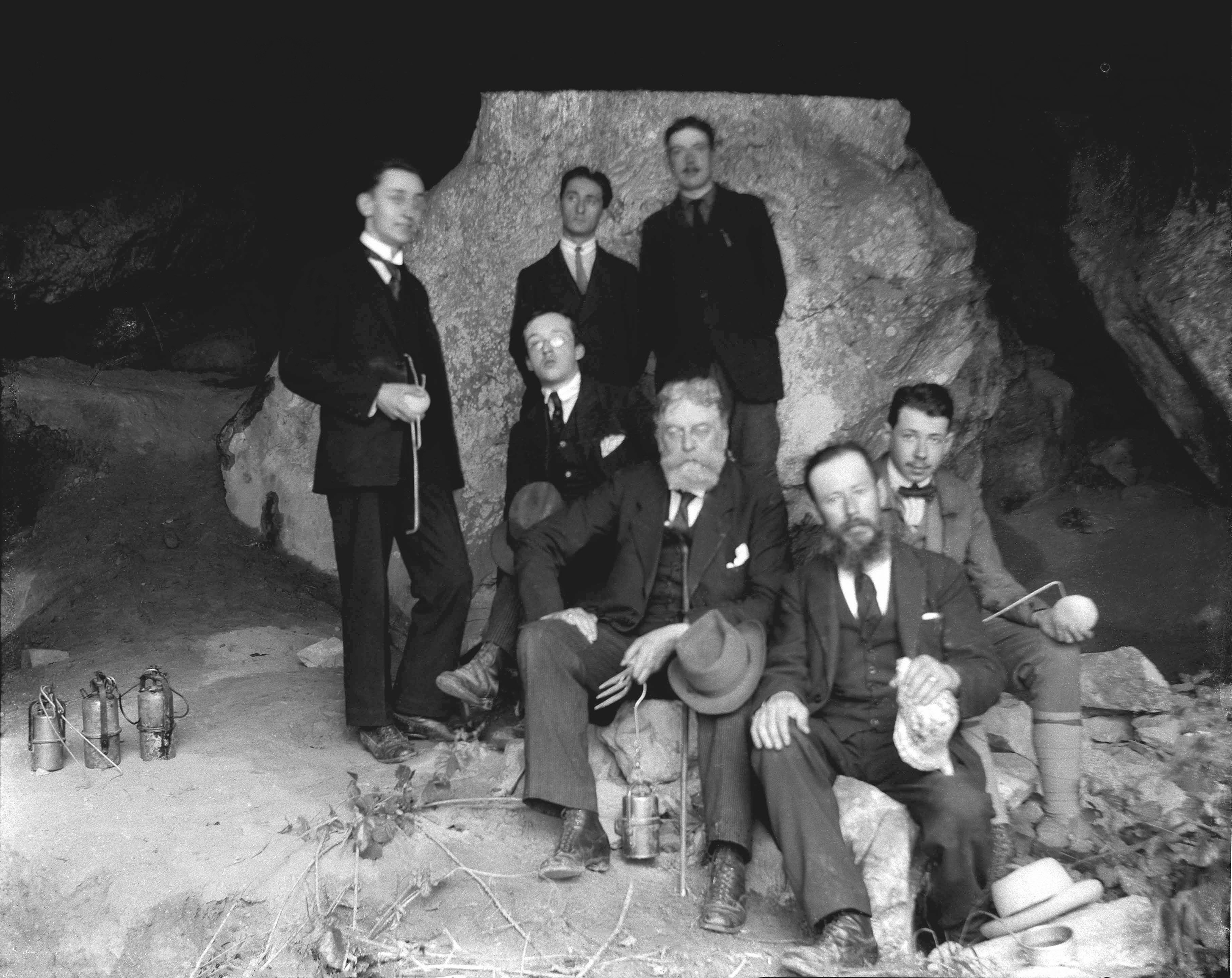 Entrance to the cave Marsoulas, campaign of excavations in 1931. Henri Begouen center, his left holding the "conch Marsoulas" J. Russell Townsend. Locality : Marsoulas cave, Marsoulas, Haute-Garonne France.